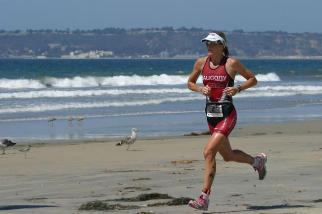 Heather Fuhr on the run at 2006 Superfrog Triathlon in Coronado, California